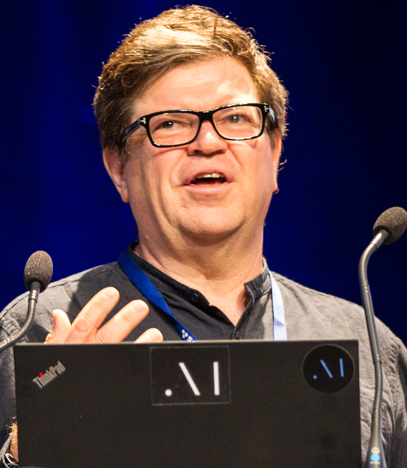 Conference of French computer scientist Yann LeCun, director of Facebook AI Research, at the École Polytechnique